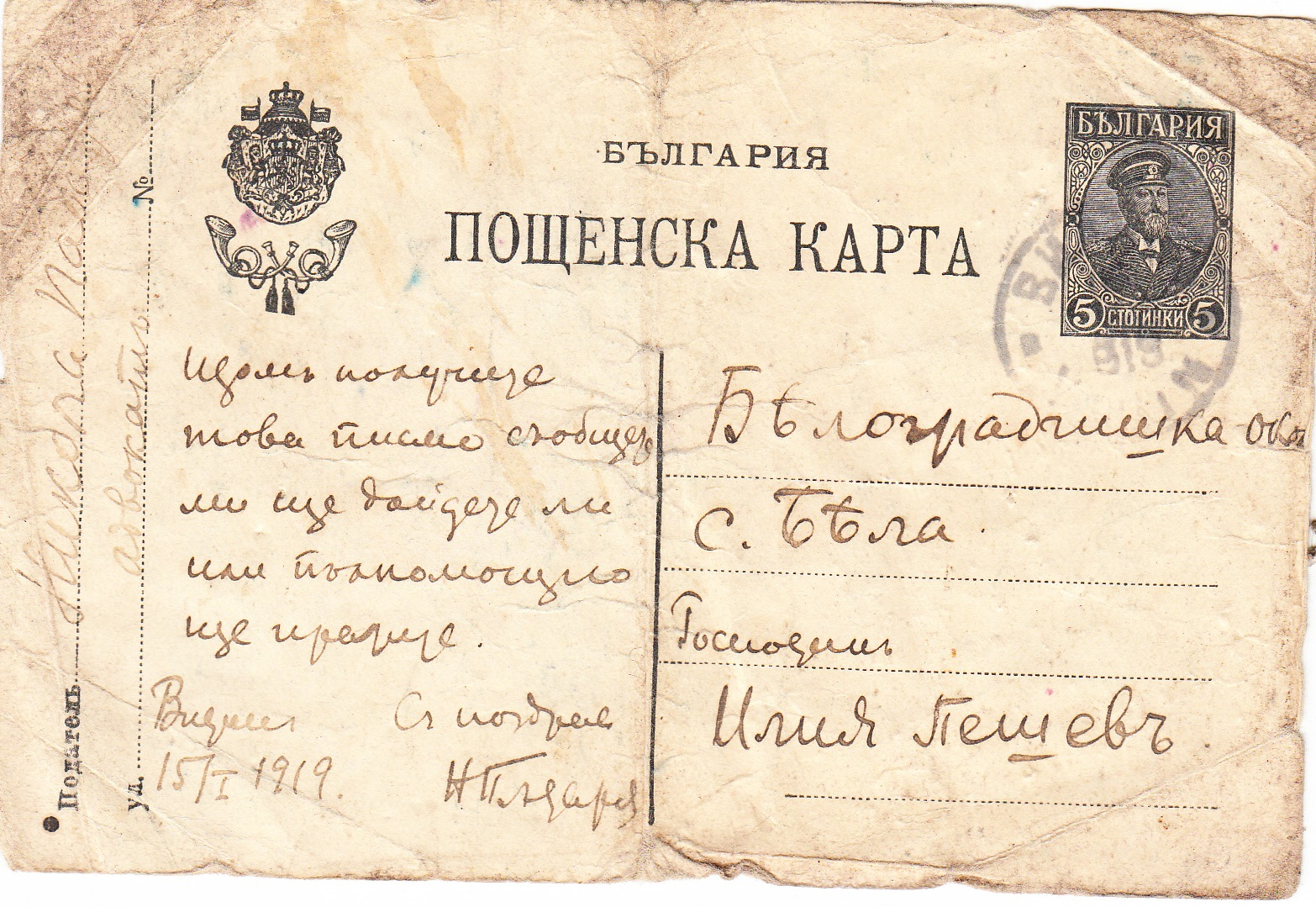 Nikola Padarev Letter with Signature